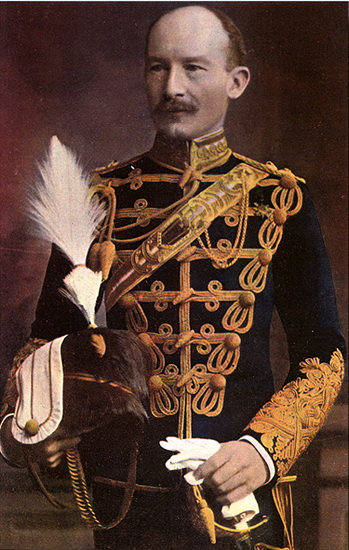 Robert Baden-Powell. 1883. Captain of 13th hussars Guards